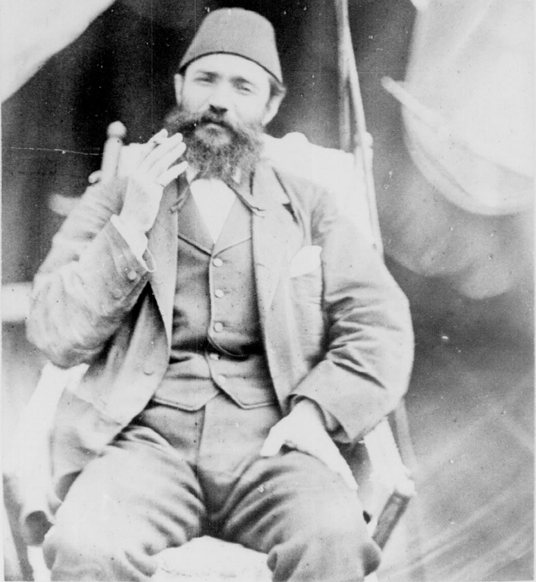 Nicola Leontides, the Greek consul in Sudan, photographed in 1882 by the French diplomat Louis Vossion. Leontides was killed in 1885 after the conquest of Khartoum by the Mahdist forces.